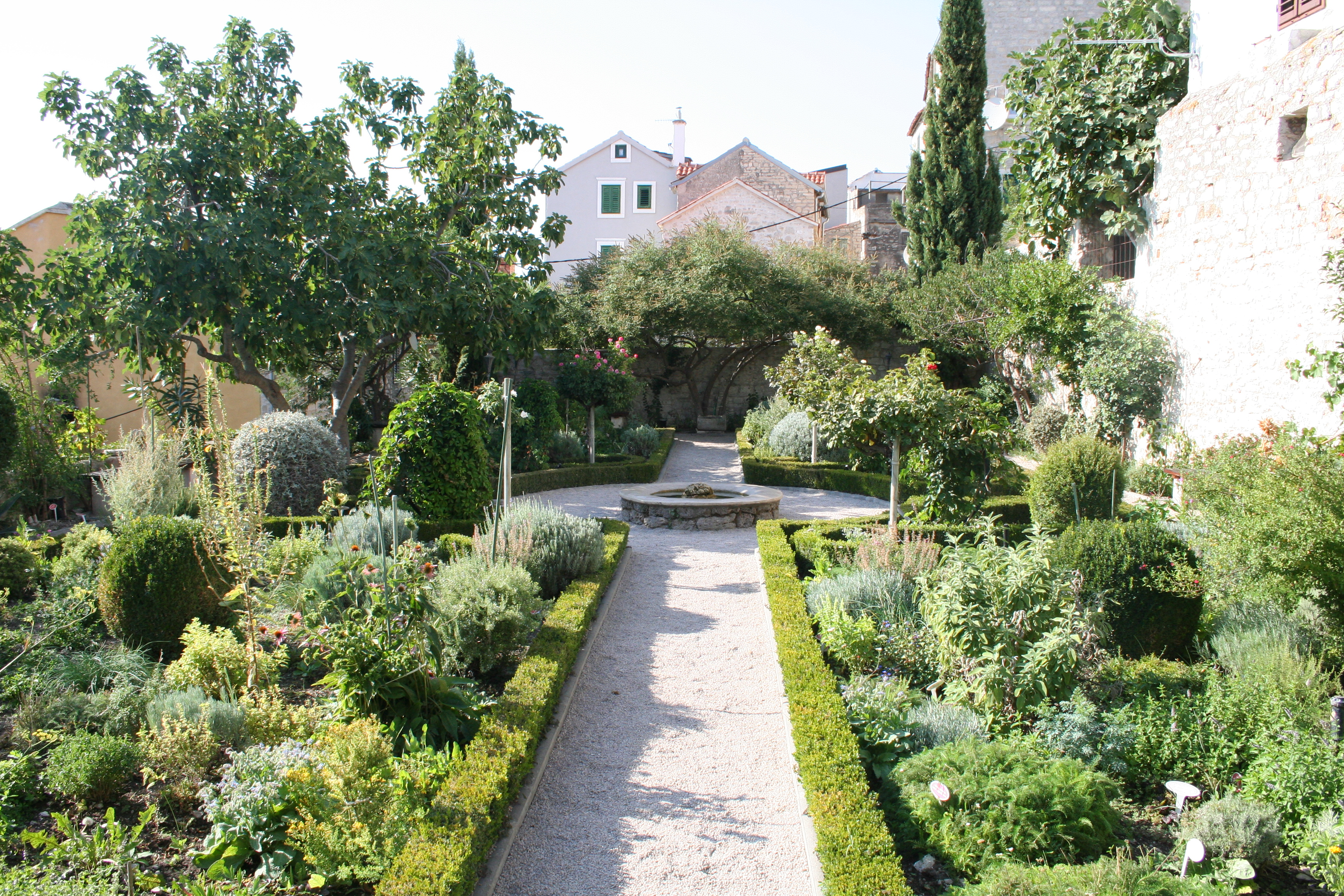 The Medieval Mediterranean Garden of St. Lawrence's Monastery in Šibenik.